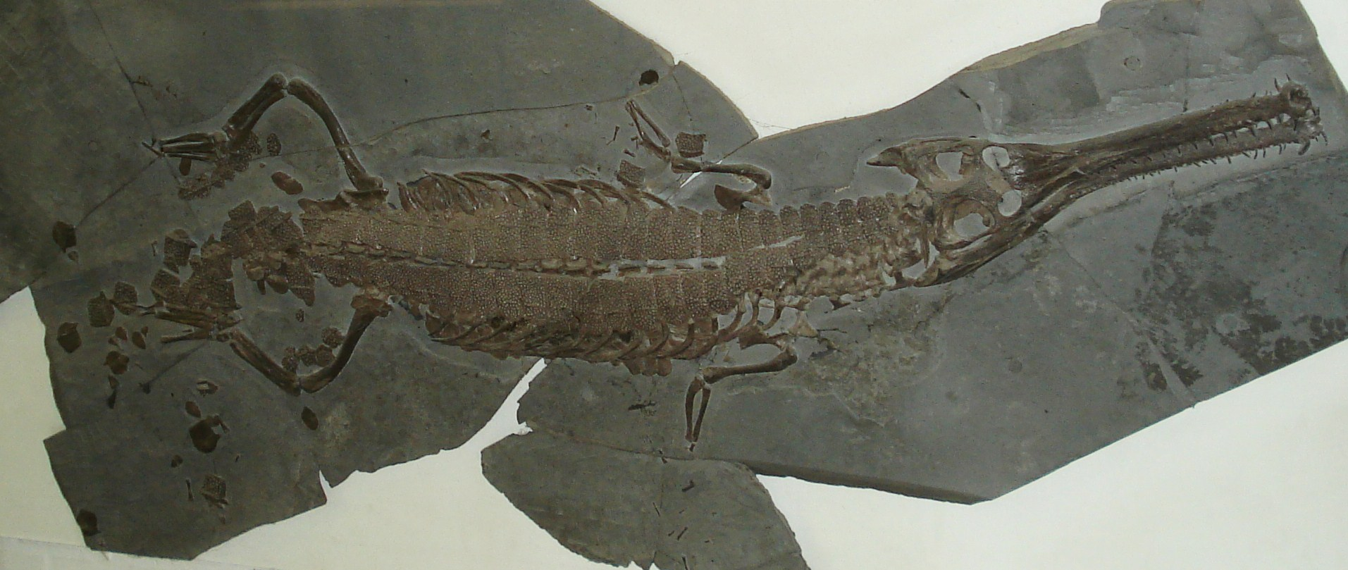 fossil of platysuchus